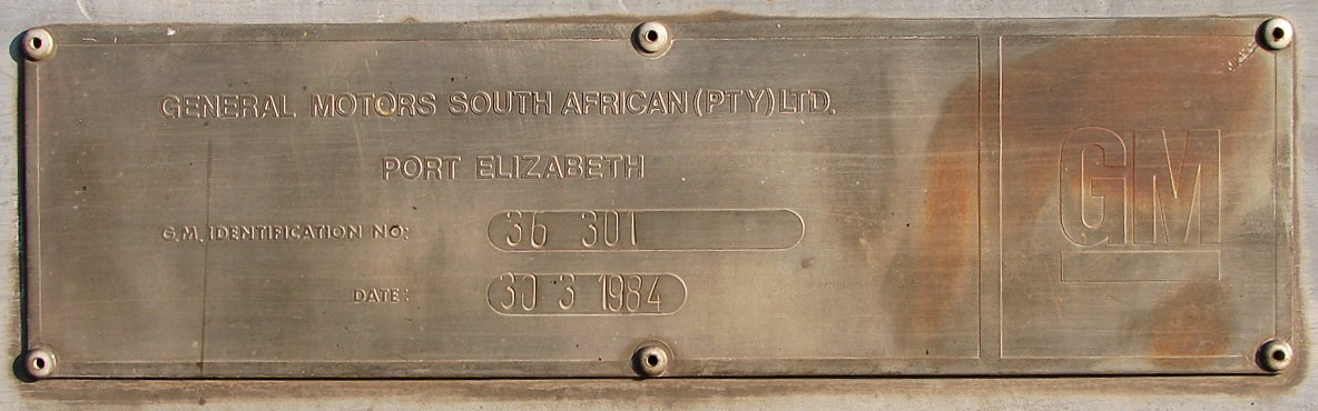 South African Class 36-200 36-301 builder’s plateBuilder's Number: GMSA 118-51Type: EMD SW1002Location: Capital Park, Pretoria, Gauteng